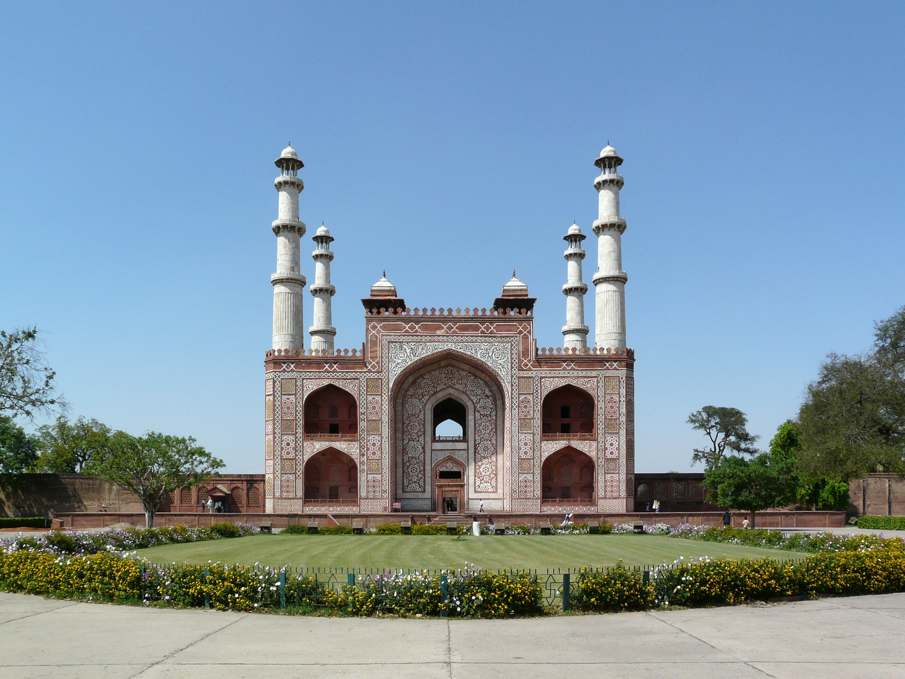 South gate to Tomb of Akbar the Great in Agra, India.